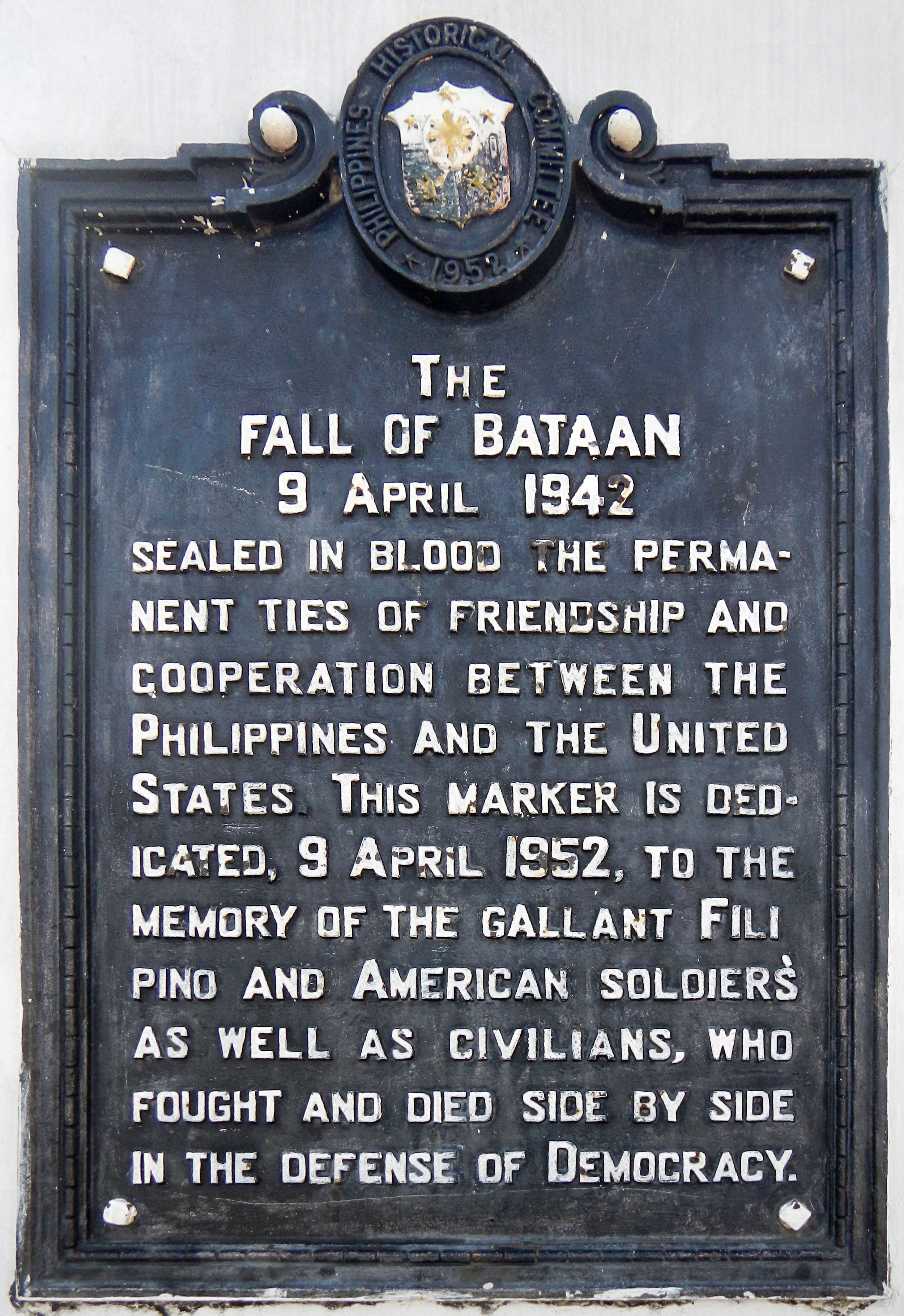 Historical marker installed by the Philippines Historical Committee (now the National Historical Commission of the Philippines) for the fall of Bataan during the Battle of Bataan.